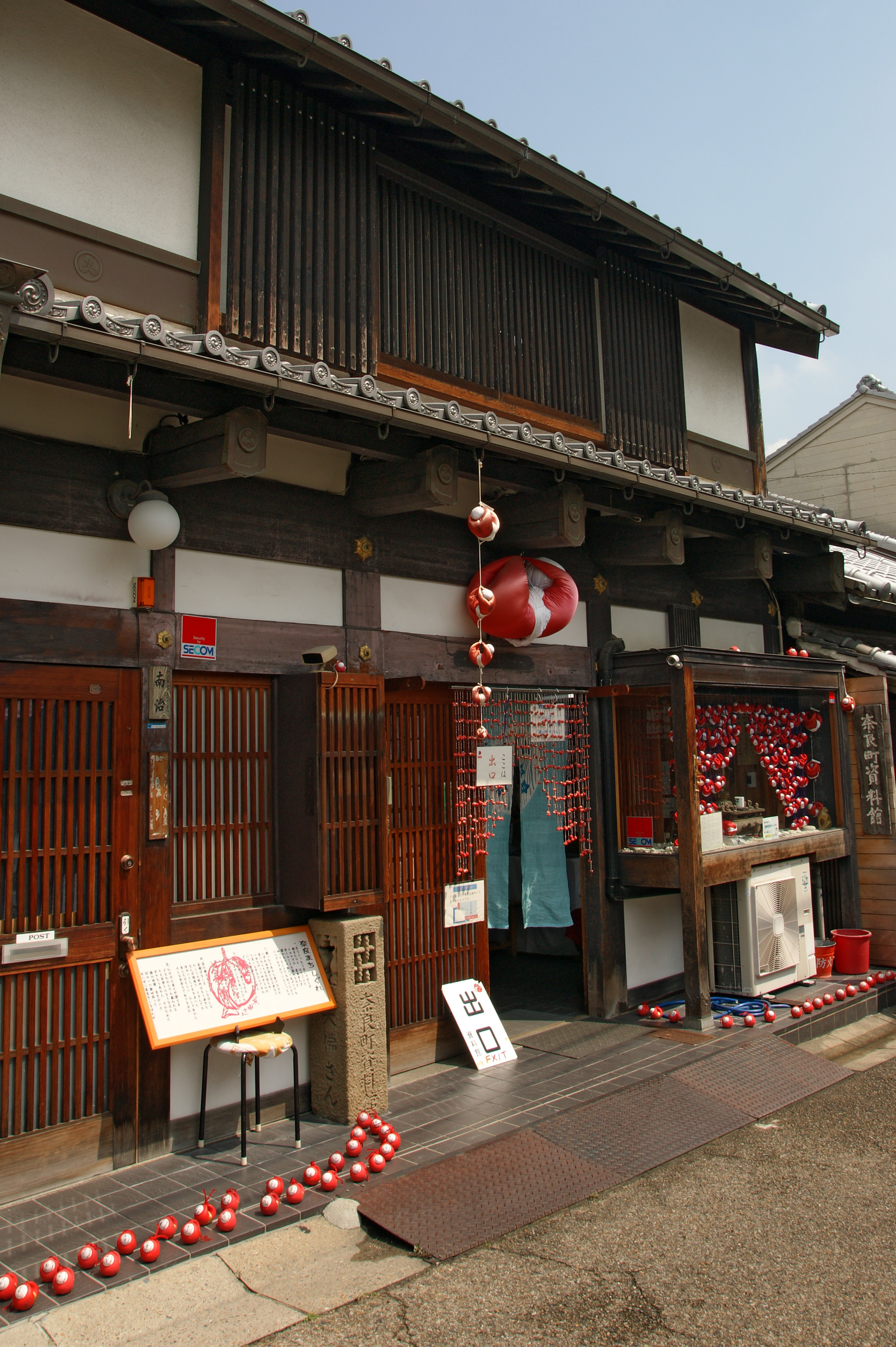 Naramachi in Nara, Nara prefecture, Japan